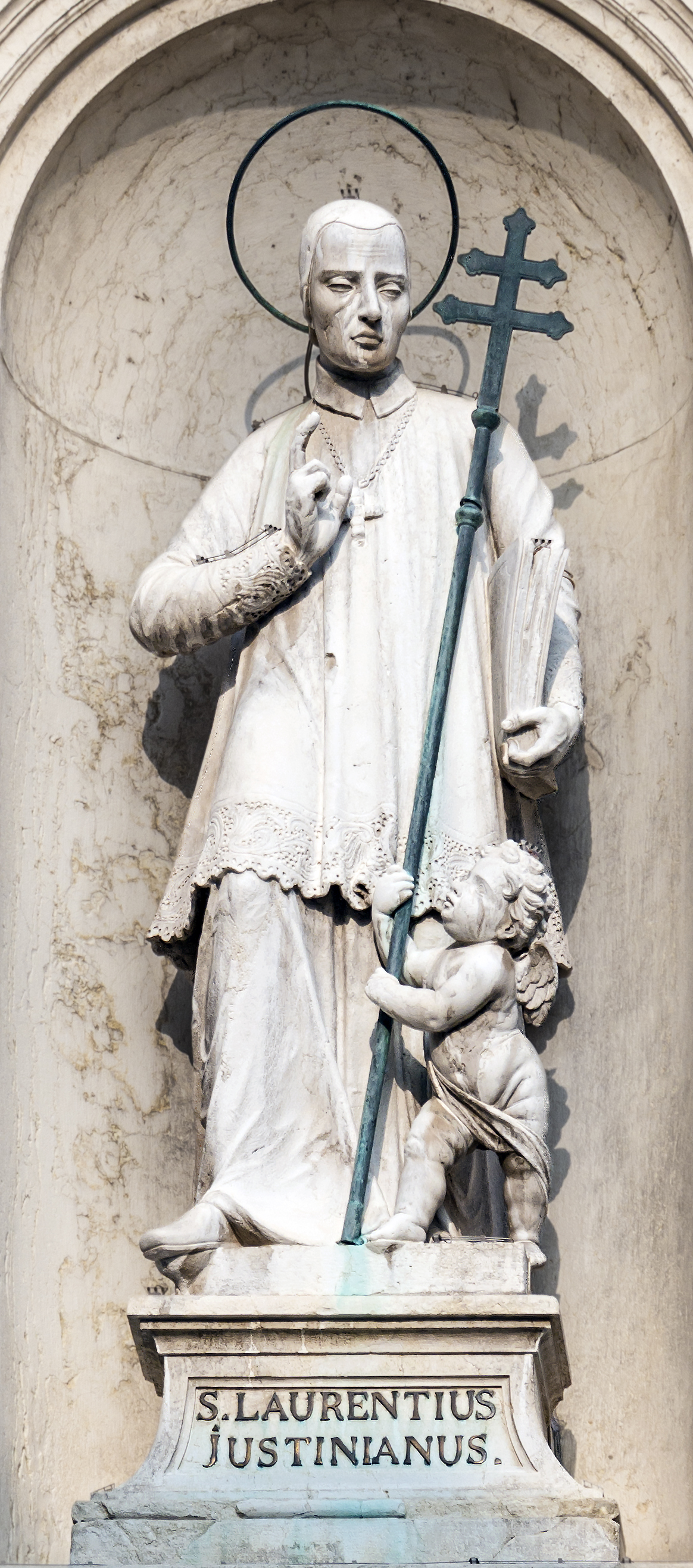 Church of San Rocco in Venice - Facade - Statue of Saint Lawrence Giustiniani by Giovanni Marchiori.